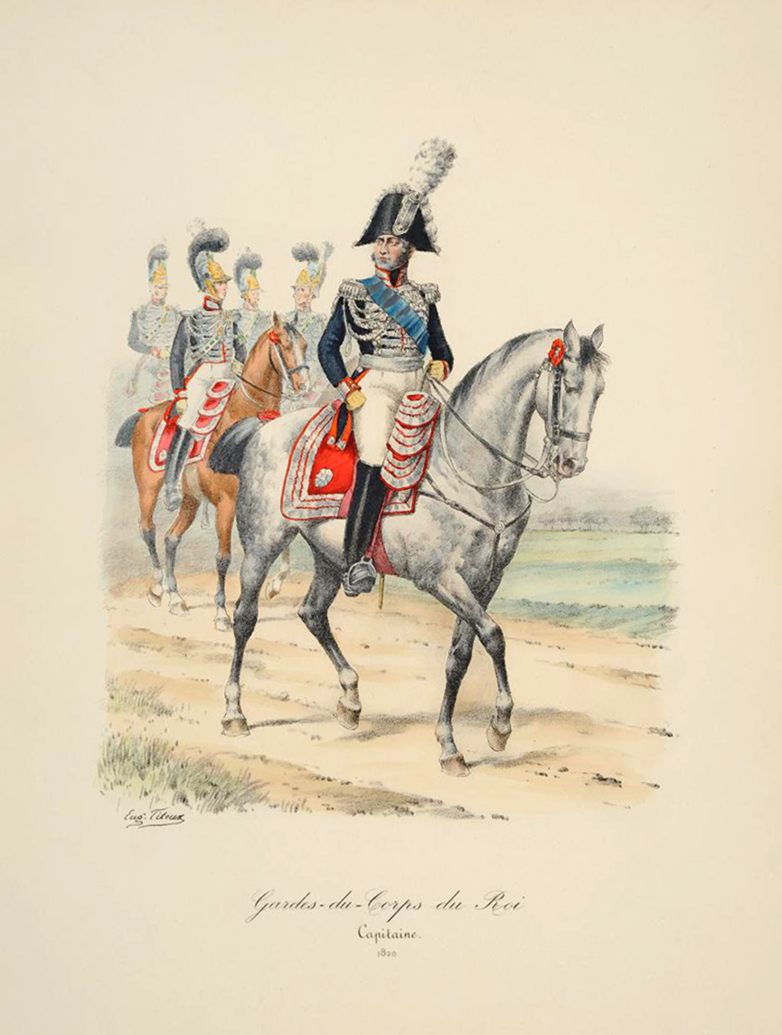 Captain of the Gardes du Corps du Roi (1820)